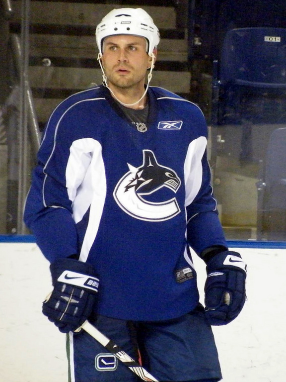 Vancouver Canucks defenceman Aaron Rome during training camp in 2009.